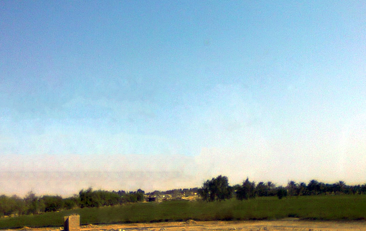 Grass lands in the Desert, Rawdat Al Hamama, Qatar